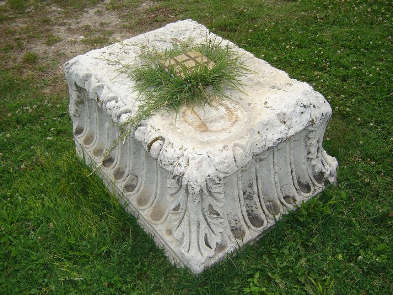 Grave in Scupi, archaeological site located between Zajčev Rid (Rabbit hill) and the Vardar River, several kilometers from the center of Skopje, in Macedonia